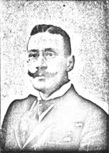 Portrait of American poet James Edwin Campbell from his Echoes from the Cabin and Elsewhere (1895): (1895) Echoes from the Cabin and Elsewhere, Chicago: Donohue & Henneberry OCLC: 1154904646.